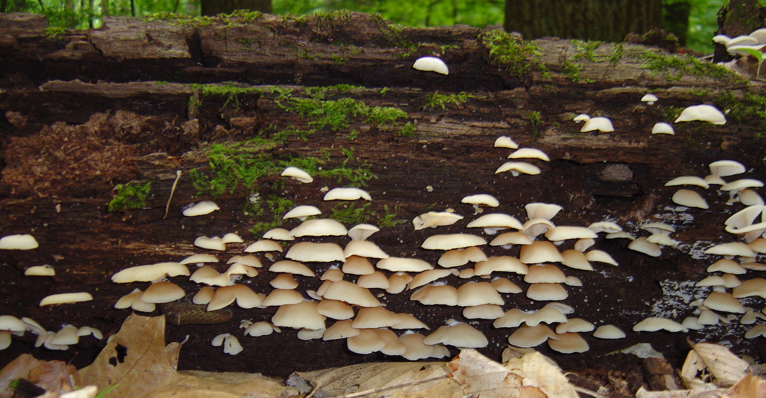 Photo of a dead log with many emerging Oyster Mushrooms (Pleurotus ostreatus) in Montgomery County, Maryland at the Chesapeake and Ohio Canal National Historical Park